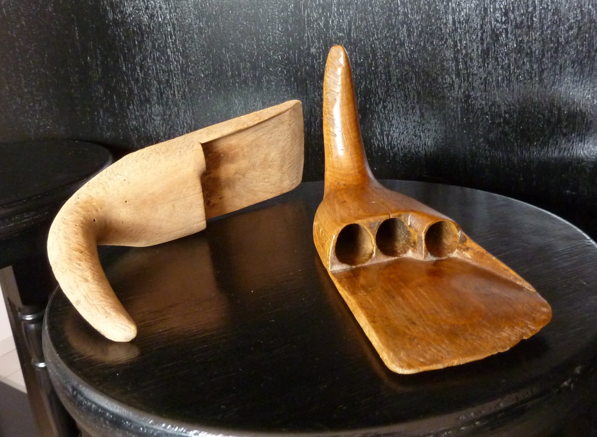 Bulgarian Palamarki